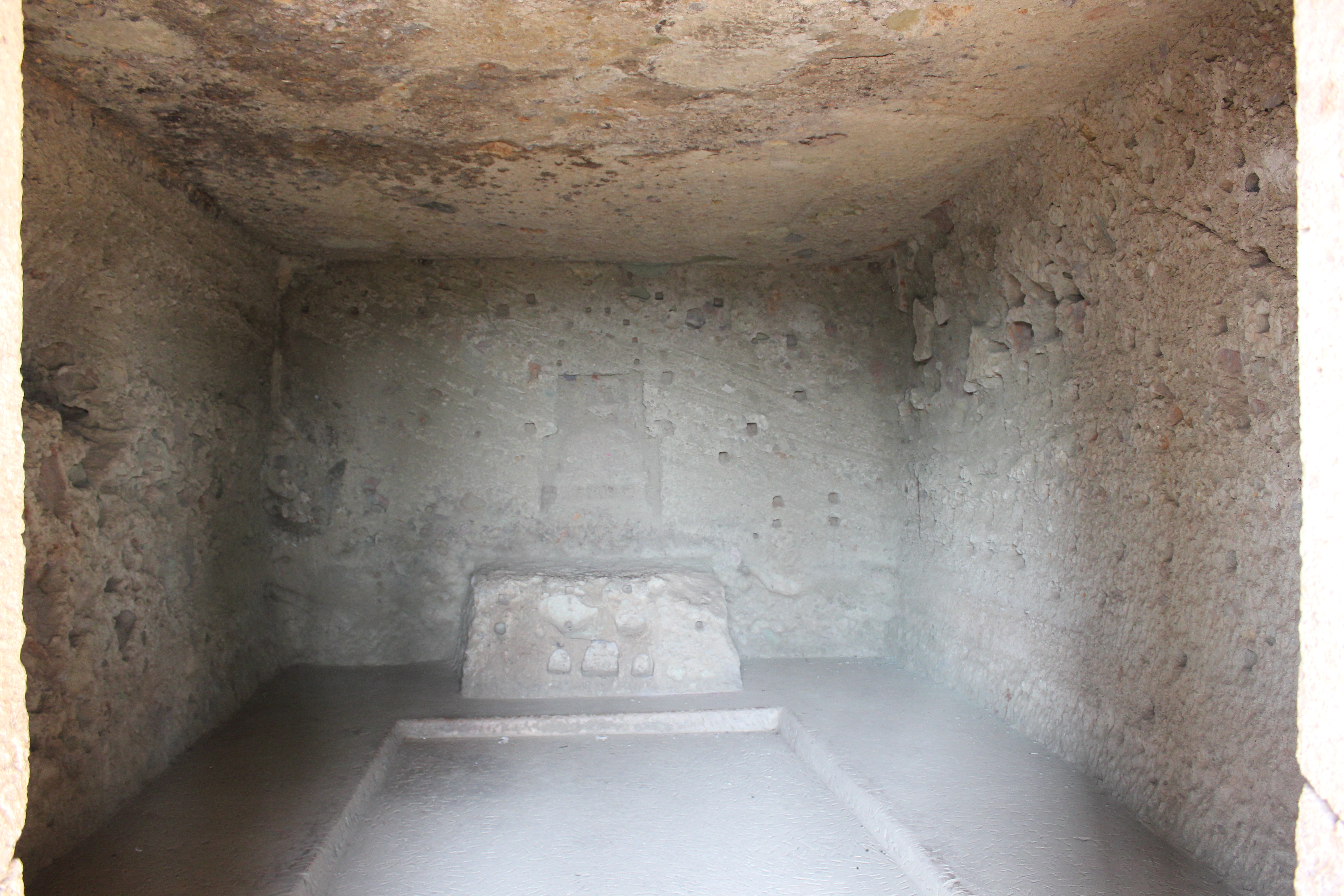 Inside first gate of Mahakali Caves